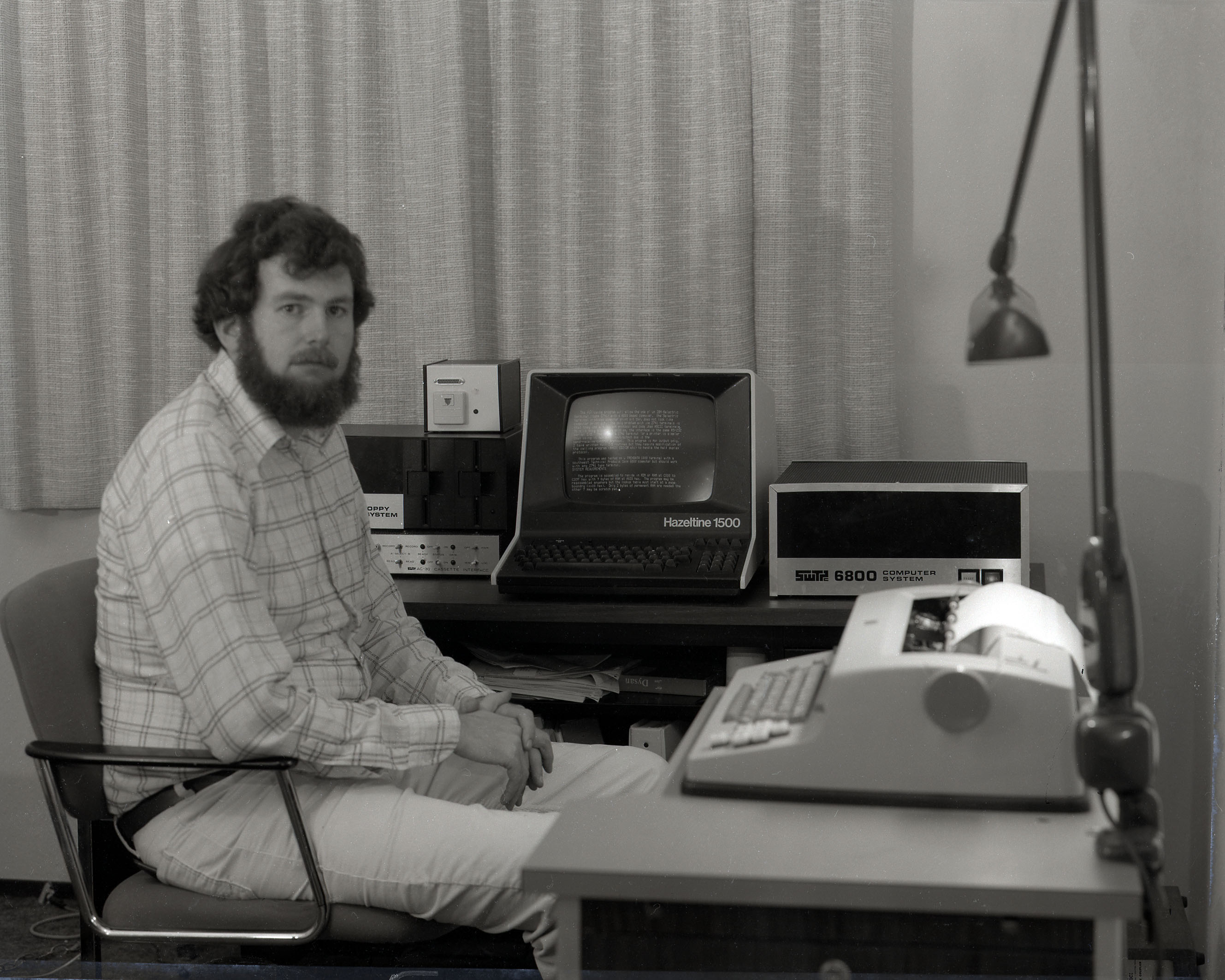 Michael Holley's Home Computer in 1978. The items in the photo are a Southwest Technical Products 6800 computer with 36k of memory, dual mini floppies, a Hazeltine 1500 video terminal, and a Trendata1000 Selectric printing terminal. The small box on the disk drive is a homebrew 300 baud modem. This photograph appeared on the front page of the July 1978 issue of the Northwest Computer Club News. The Northwest Computer News was published from 1976 to 1982 by the Northwest Computer Society of Seattle, Washington. Newsletter editor John Aurelius started a "My System" feature in May 1978 that featured a member's home computer system on the front page. The feature ran for 2 years. Gale Sherry took the photographs with a large format view camera that used 4 by 5 inch black and white film. Lighting checks were done with a Polaroid film back. This negative was scanned on an Epson Perfection V500 Photo in September 2010. The 4 by 5 inch negative was larger than the capacity of the V500 so it was scanned twice. The lower and upper portions were combined with Adobe Photoshop Elements. The negative was stored in a glassine envelope at room temperature for over 32 years. Some defects have grown on the image. These were touched up with Photoshop.